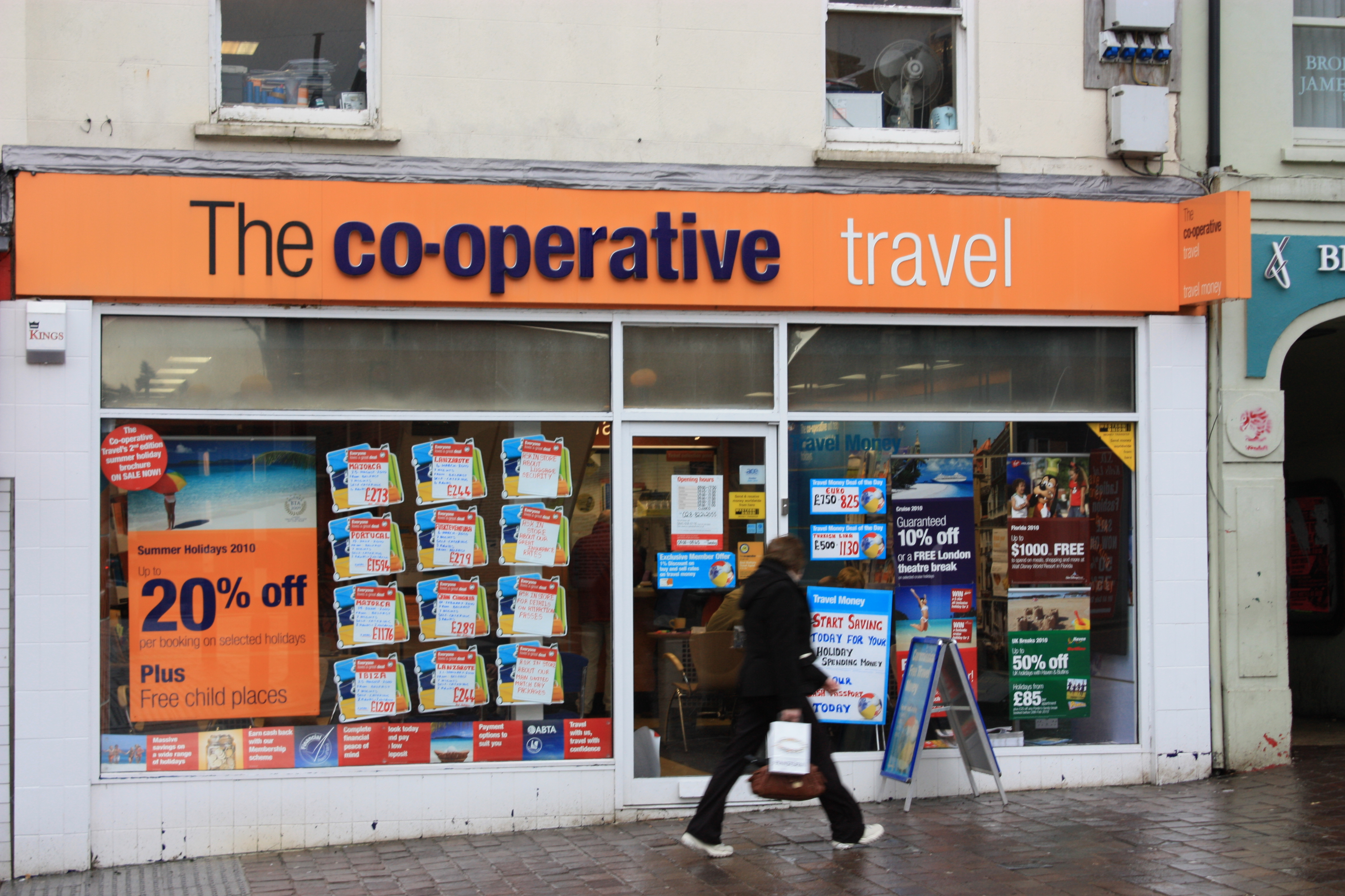 Co-Operative Travel, Market Street, Omagh, County Tyrone, Northern Ireland, January 2010